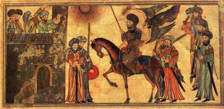 Mohammed (riding the horse) receiving the submission of the Banu Nadir, a Jewish tribe he defeated at Medina. From the Jami'al-Tawarikh, dated 1314-5. In the Nour Foundation's Nasser D. Khalili Collection of Islamic Art, London.